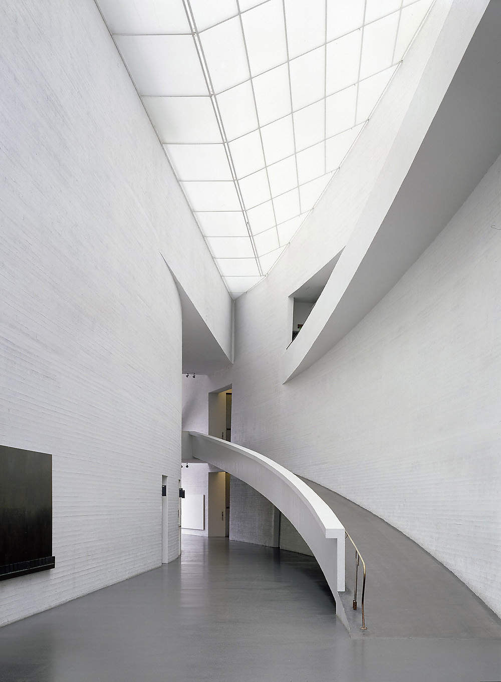 Museum of Contemporary Art Kiasma, Helsinki, entrance hall. Architect: Steven Holl.